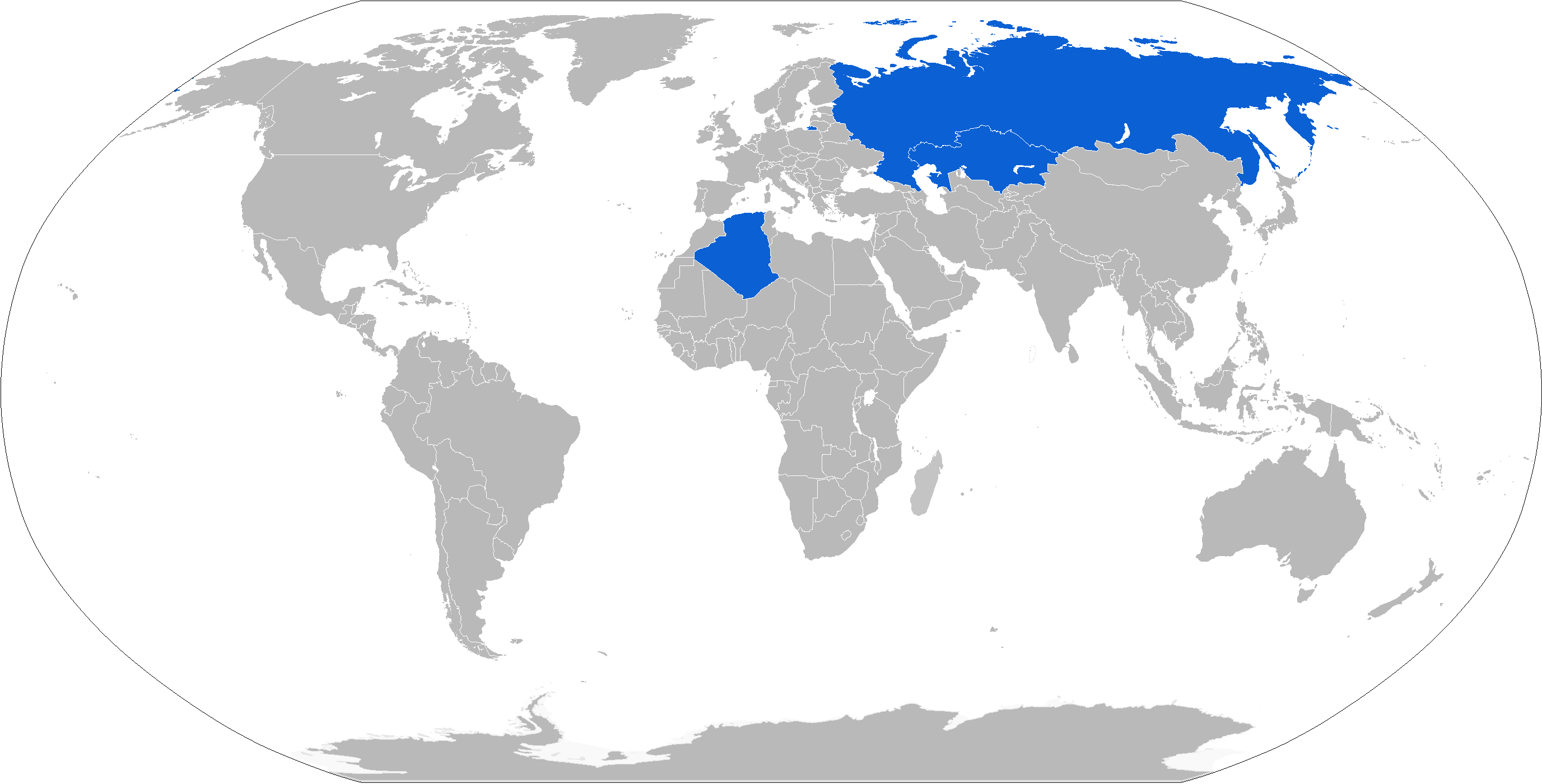 Map with BMPT Terminator operators in blue